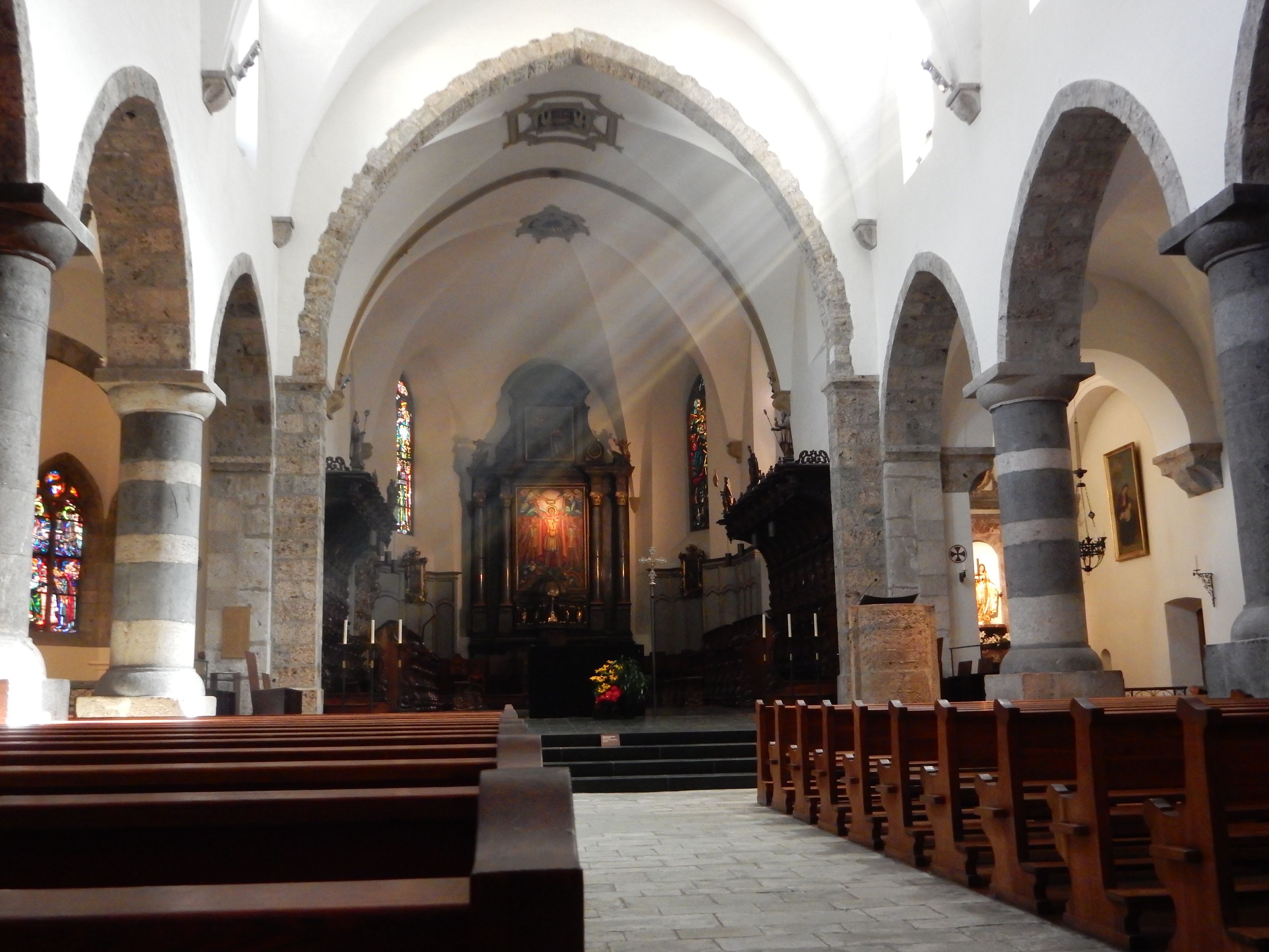 Abbey of St. Maurice, Agaunum. View towards the choir